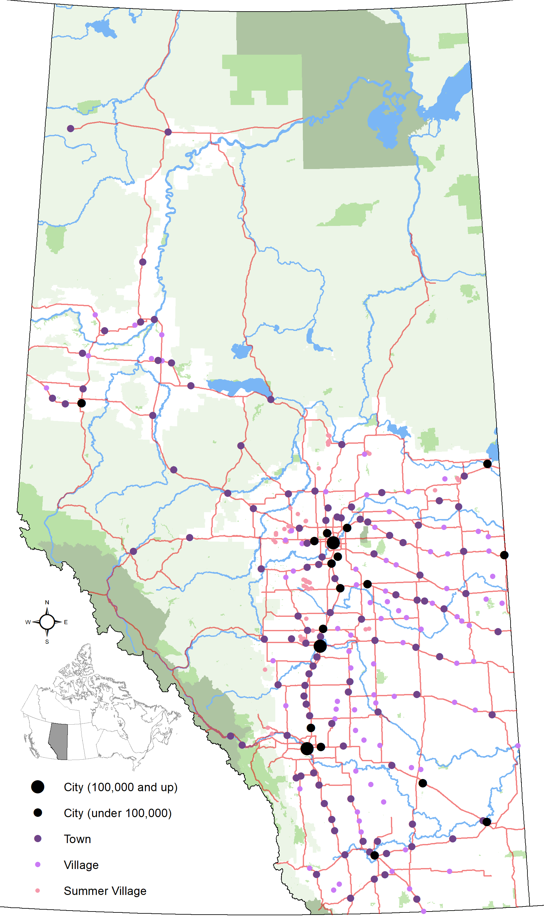 Map showing locations of Alberta's 269 urban municipalities by type (17 cities, 108 towns, 93 villages and 51 summer villages) as of October 2013, with base reference features (highways, national and provincial parks, and major lakes and rivers).